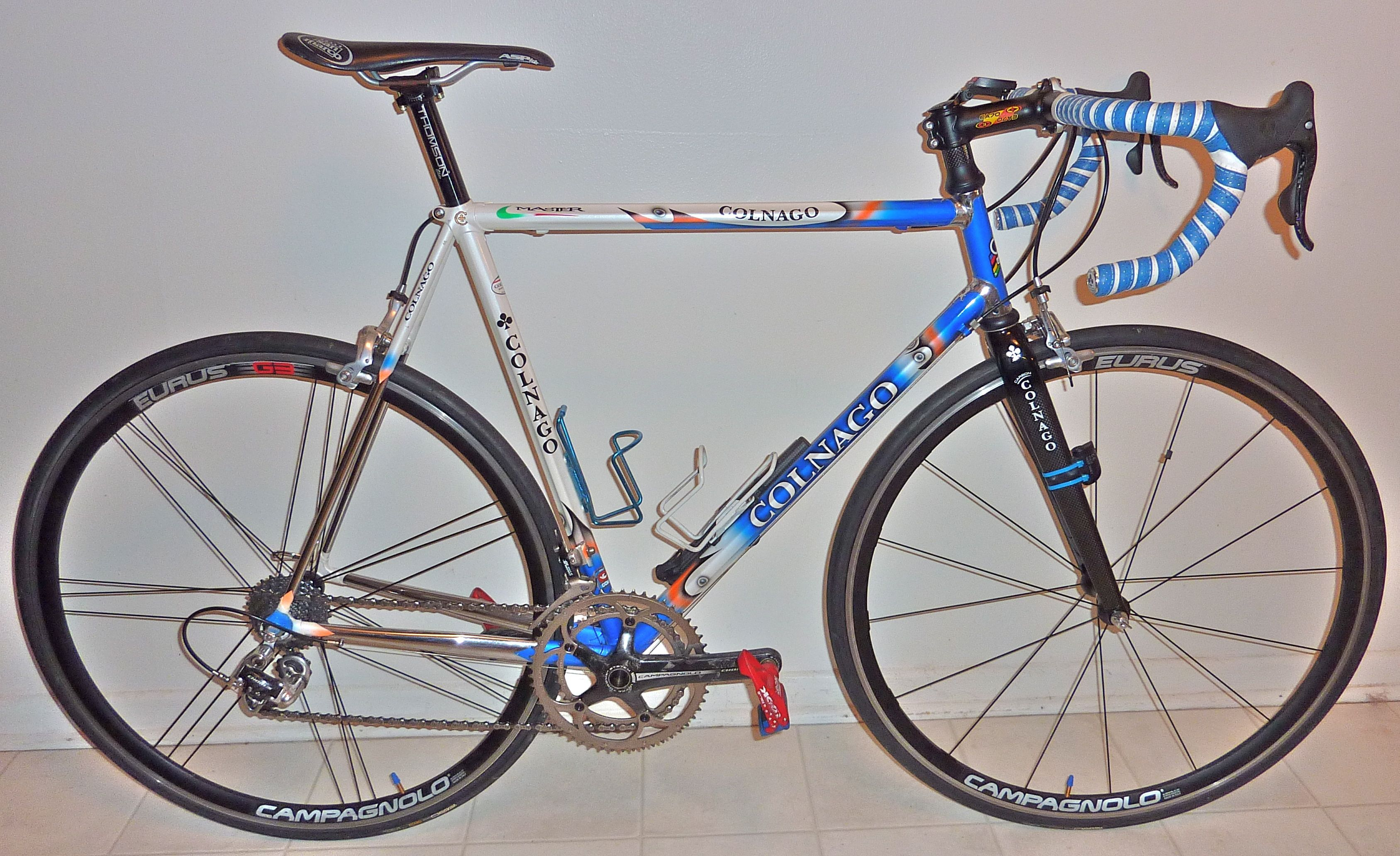 Colnago Master X-Light bicycle